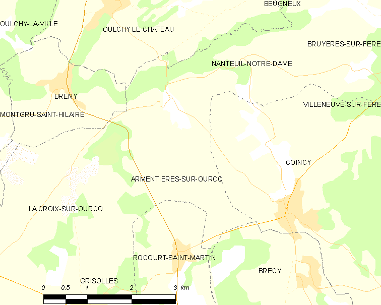 Map of French commune: Armentières-sur-Ourcq Map commune FR insee code 02023.png